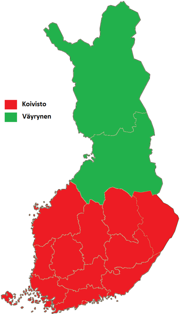 Presidential elections result, 1988